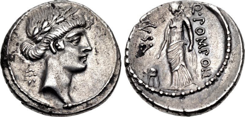 Q. Pomponius Musa. 56 BC. AR Denarius (19mm, 3.66 g, 6h). Rome mint. Laureate head of Apollo right; star of eight rays to left / Urania, the Muse of Astronomy, wearing long flowing tunic and peplum, standing left, touching with wand held in right hand globe set on base; Q • POMPONI downwards to right, MVSA downwards to left.